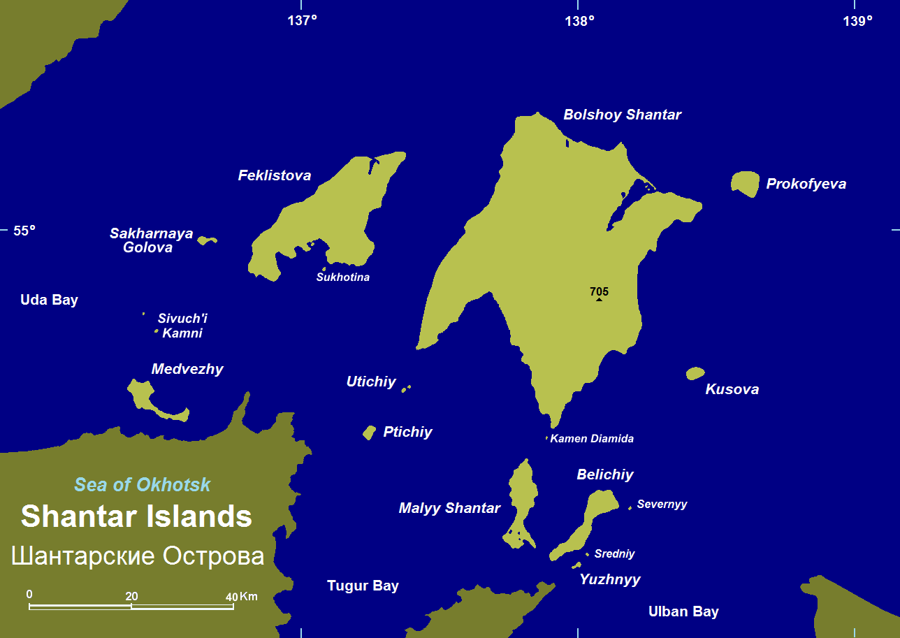 color map of island group